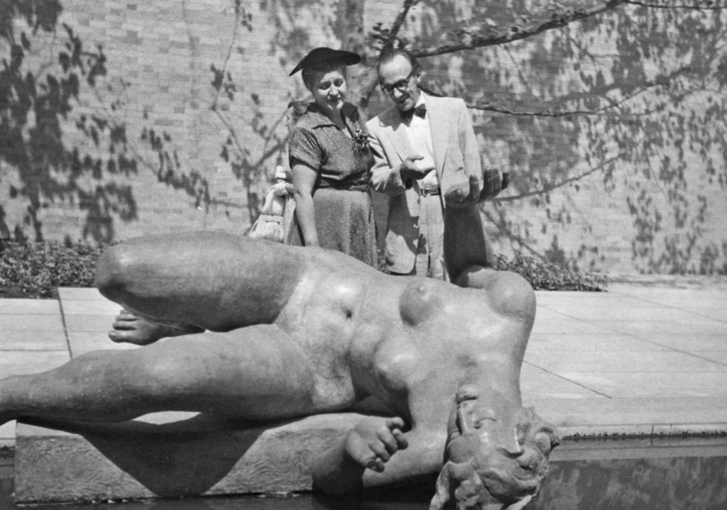 Edward Kozak & Mrs. Kozak at the Museum of Modern Art in New York City